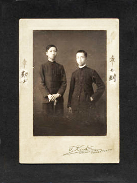 Zhang Shizhao and Zhang Qinshi